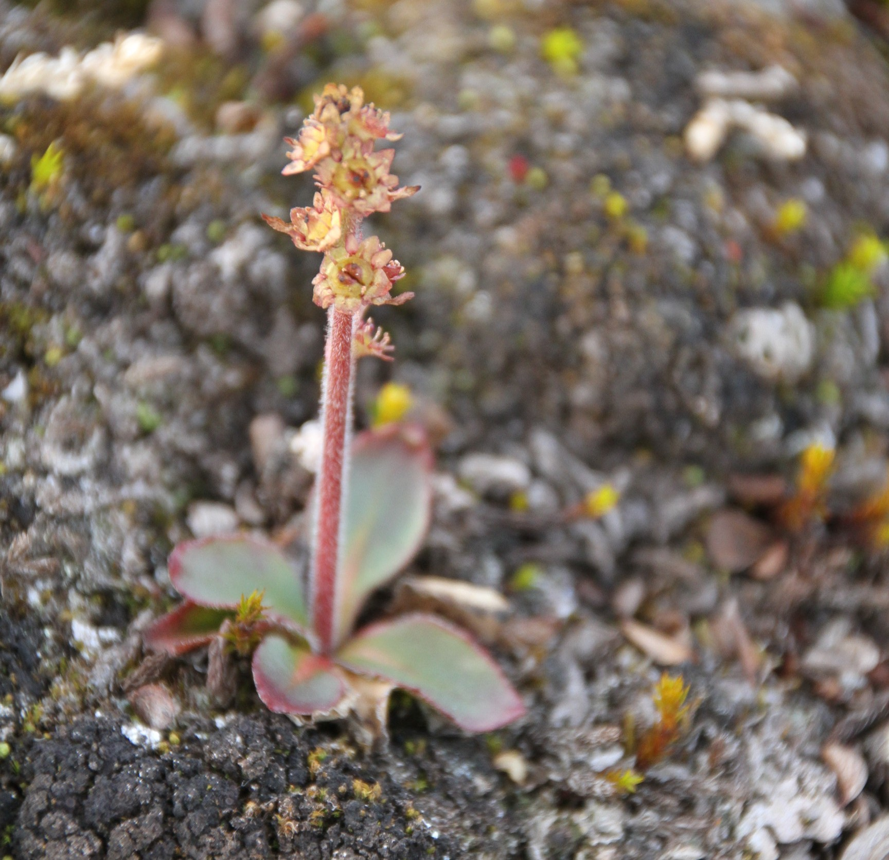 Saxifrage flower observed at island of Spitsbergen, Svalbard (Norway). August,, 2012.